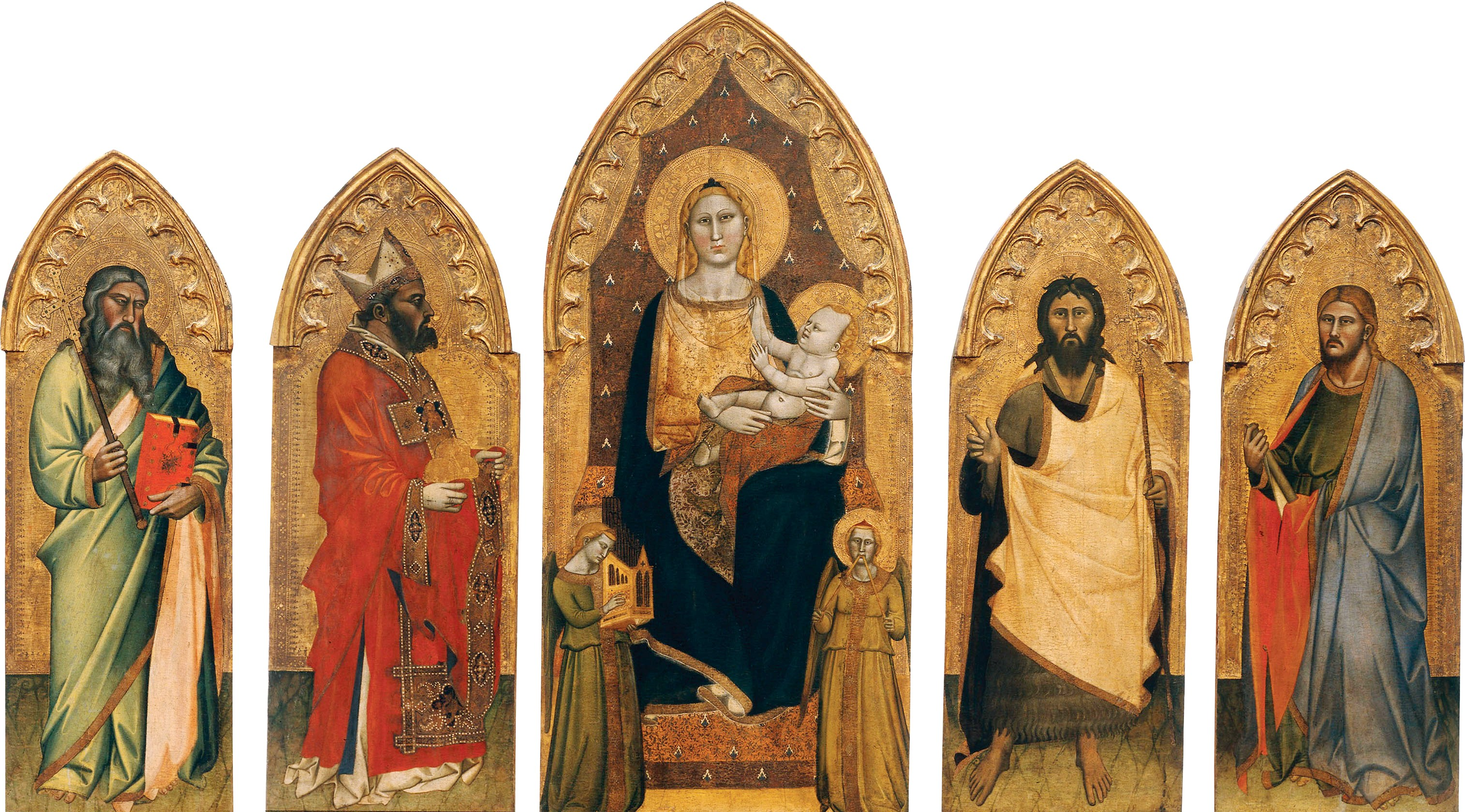 Andrea Orcagna and Jacopo di Cione madonna and Child Enthroned with Two Angels and Saints 1365-70 Galleria dell'Accademia